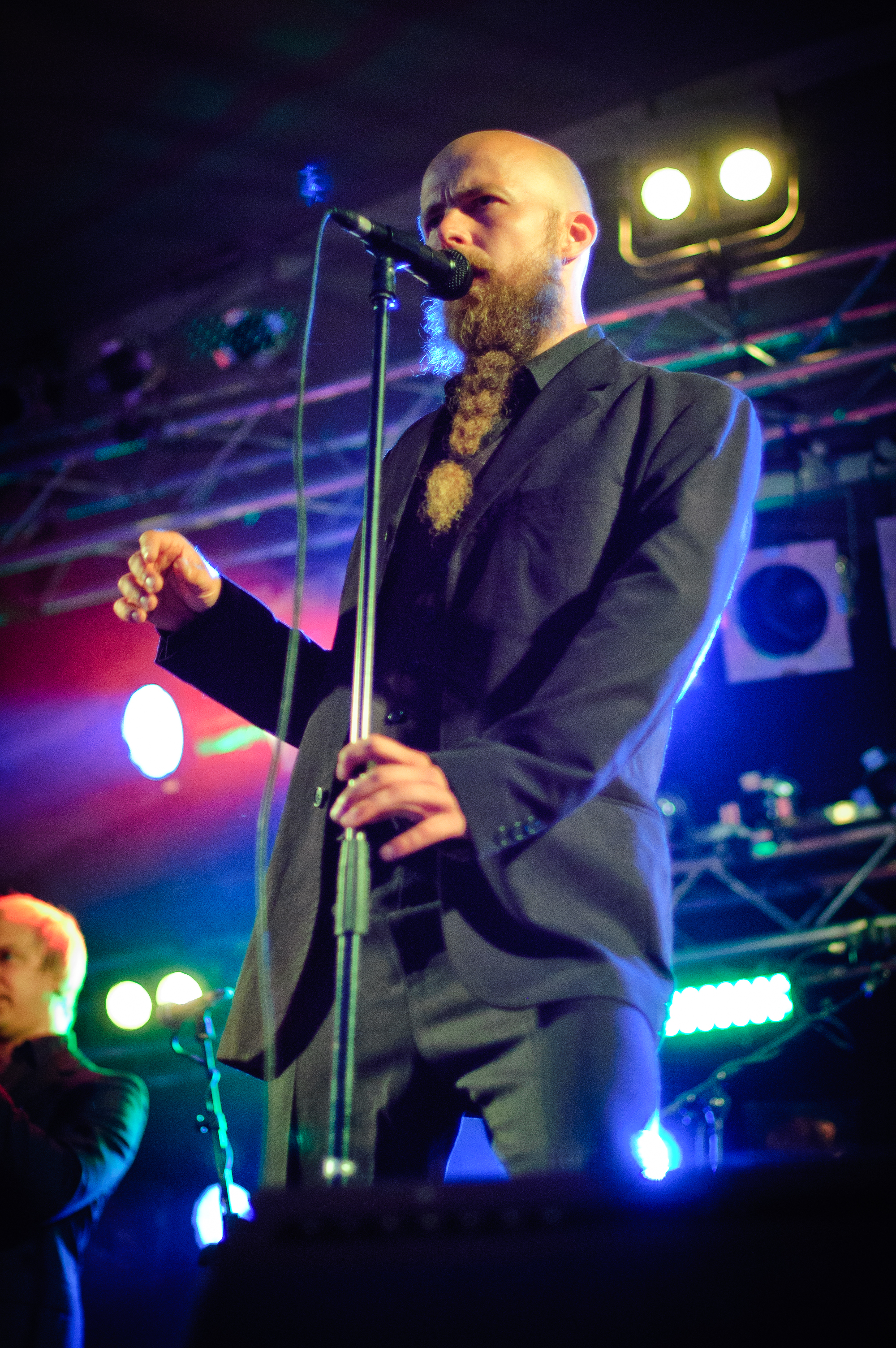 Finnish vocalist Vesterinen of the band Vesterinen Yhtyeineen performing at the 2010 Ilosaarirock festival in Joensuu, Finland.